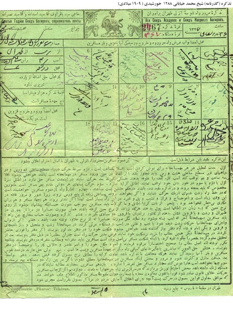 Passport document for Sheikh Mohammad Khiabani, 1909